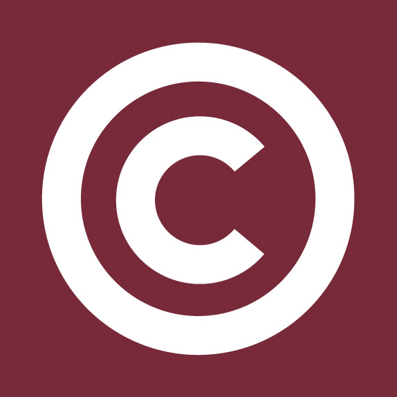 The logo of the Faroese Social Democratic Party (Javnaðarflokkurin), displaying a 'c' in a circle, similar to the copyright sign. It is believed to be ineligible for copyright, and is therefore public domain, as it consists entirely of information that is common property and contains no original authorship.